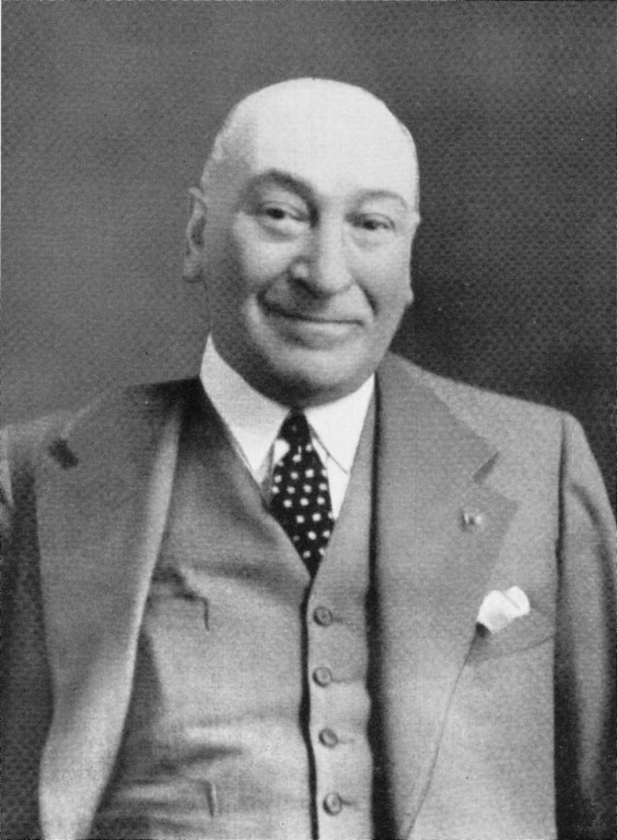 Avv. Angelo Donati in his late years